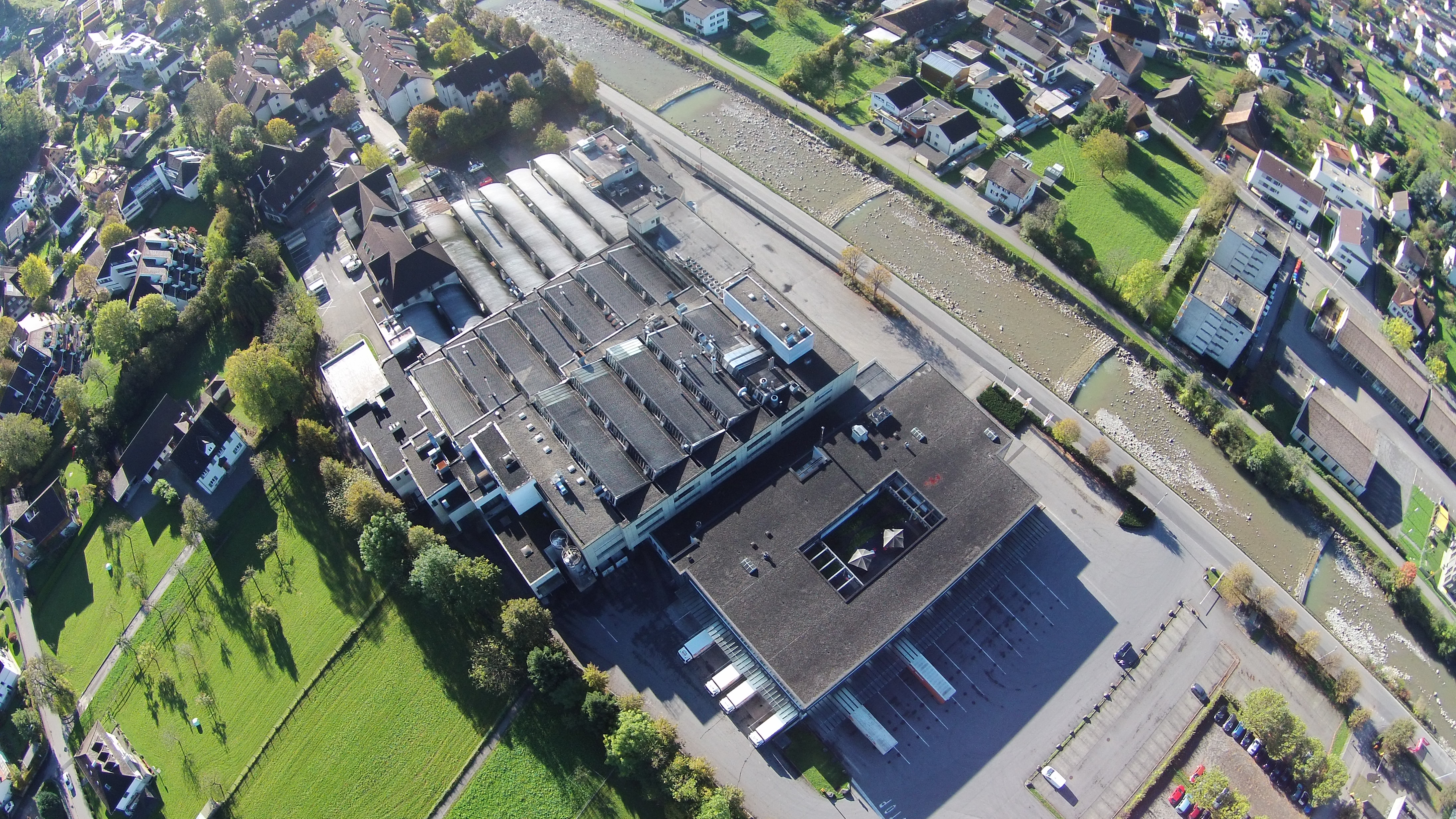 Factory Juchen of Rudolf Ölz Meister Baecker GmbH in Dornbirn, Vorarlberg, Austria.